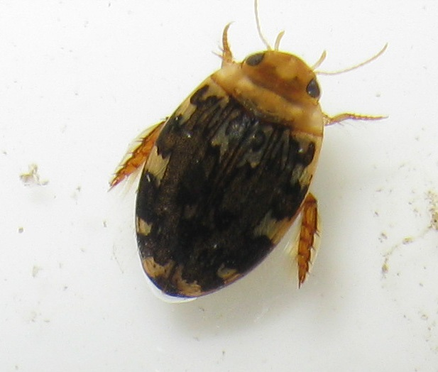 Predaceous diving beetle, Laccophilus maculosus maculosus. Briar Bush Nature Center, Montgomery County, Pennsylvania, USA.